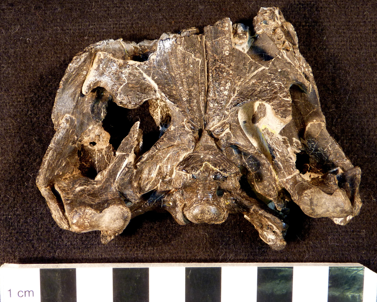 A ventral view of the posterior skull of USNM 214823, the paratype specimen of Doswellia kaltenbachi